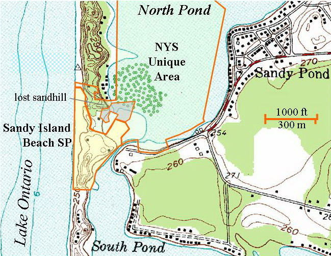 Topographic map showing the boundaries of Sandy Island Beach, which is a New York State Park, and for the Sandy Island Beach Unique Area, which is a New York State Forest. Park boundaries are based on the Oswego County tax map for a parcel with tax ID 027.13-01-01, which in 2008 is listed as owned by "New York State (Sandy Island)". Unique Area boundaries are based on the parcel with tax ID 027.14-01-01.2, which in 2008 is listed as owned by the New York State Department of Environmental Conservation; this region was sold to New York by the Nature Conservancy in 2004. The shaded gray area within the boundary of the Unique Area is privately owned.